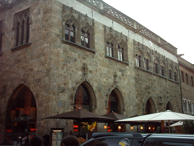 Loge de mer of Perpignan